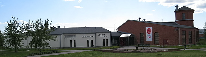 Roundhouse. Salo Art Museum